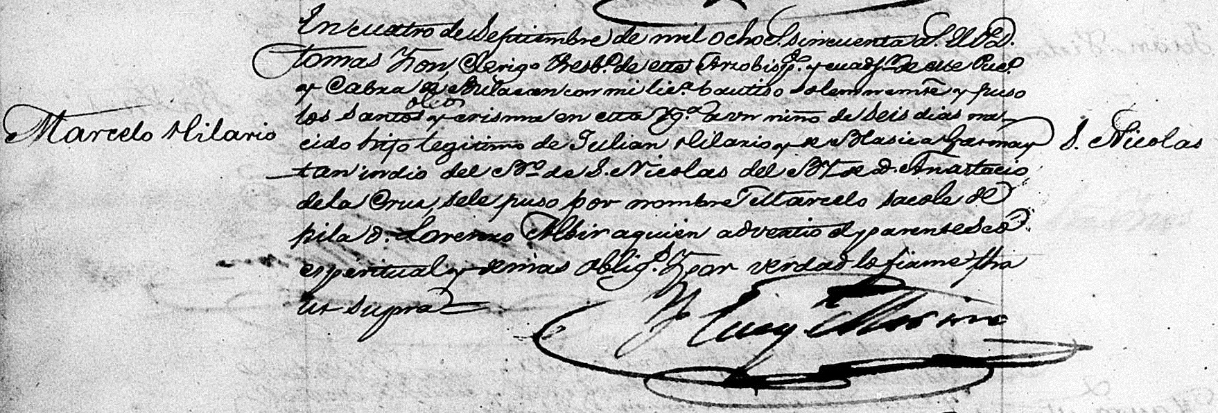 Cropped from